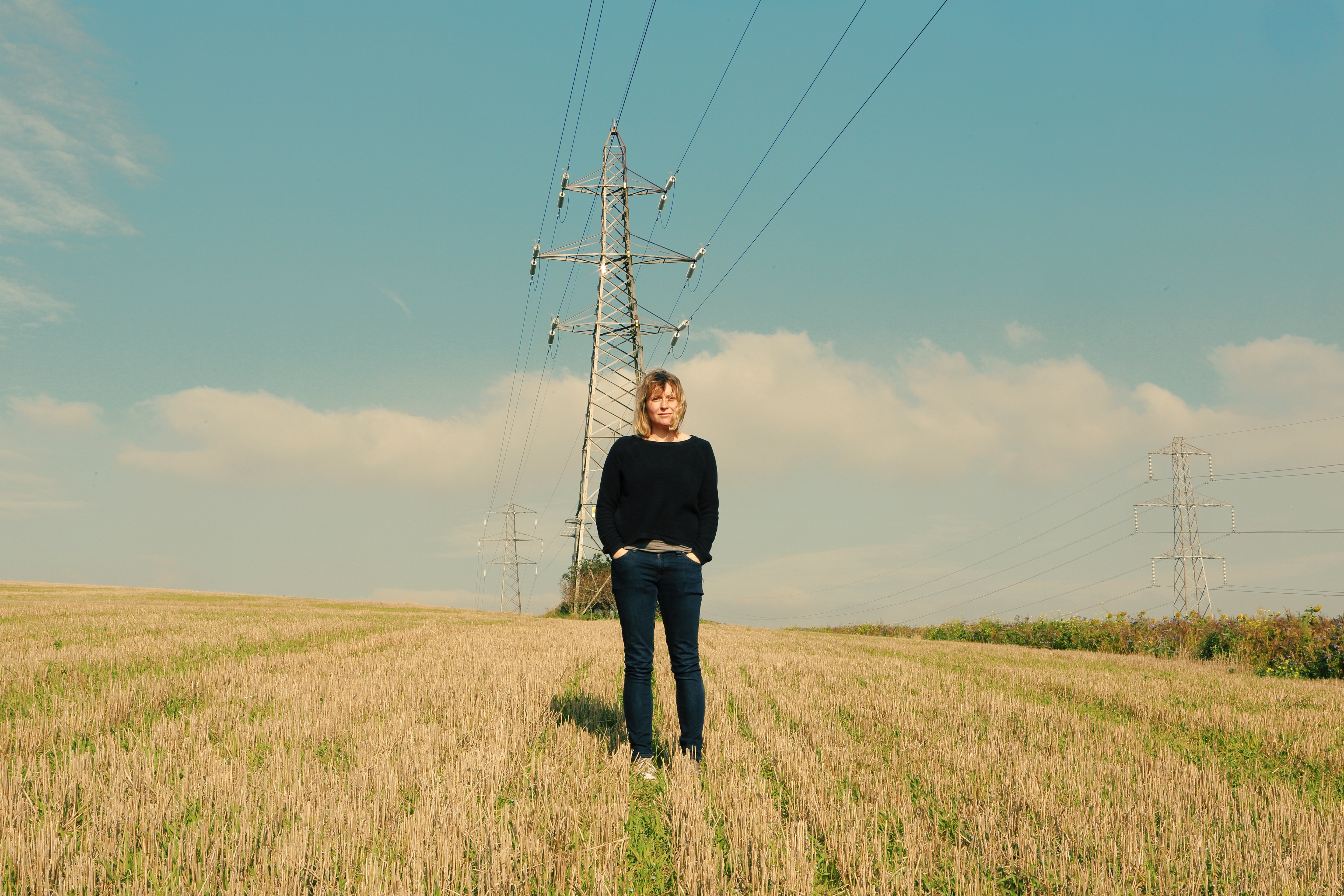 Photo of Emily